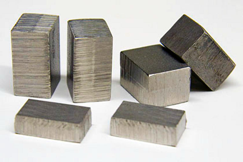 Samples of Invar, a nickel-iron alloy with a very low coefficient of thermal expansion.